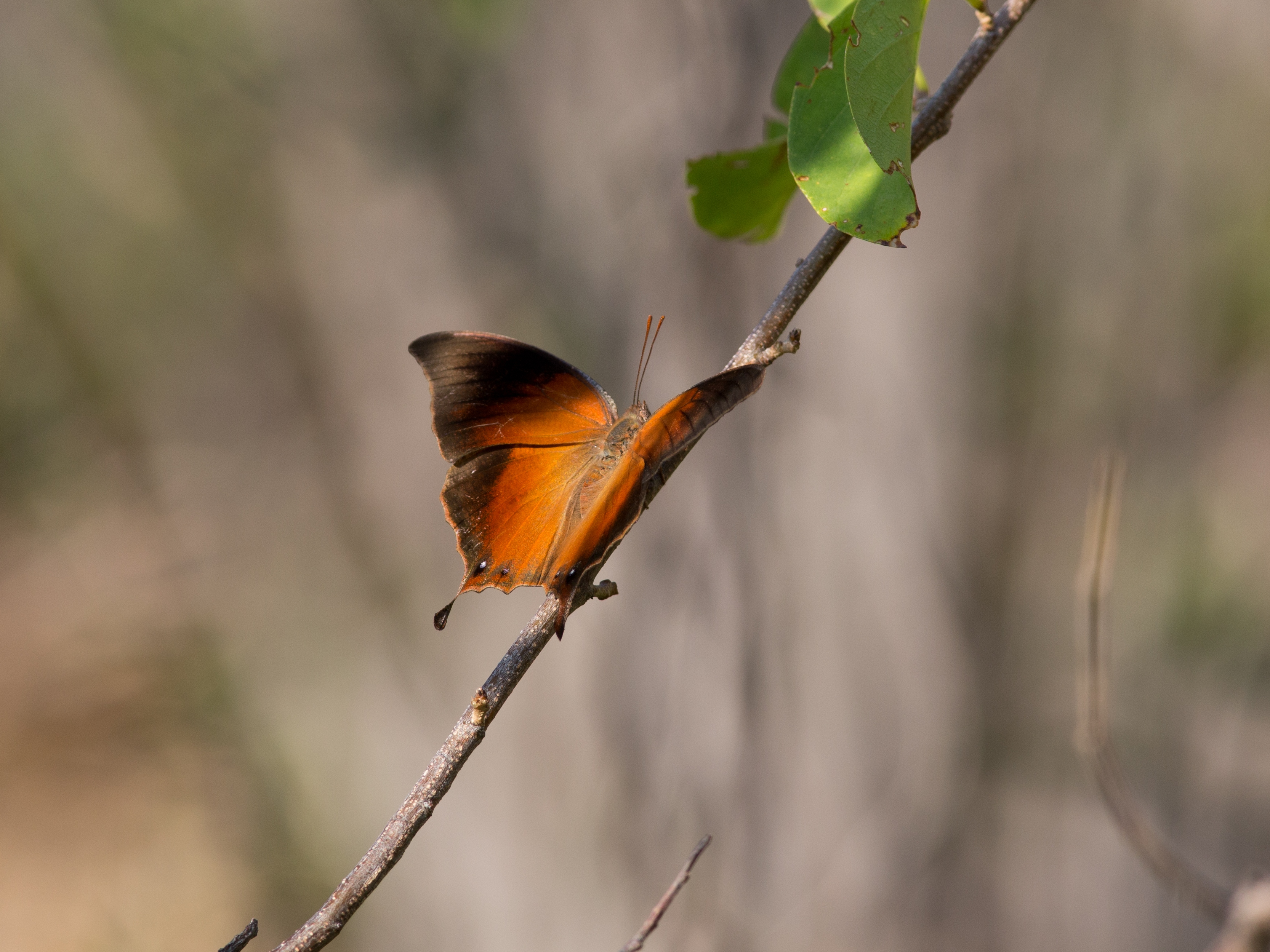 Memphis echemus echemus (Chestnut Leafwing), Guantánamo, Cuba